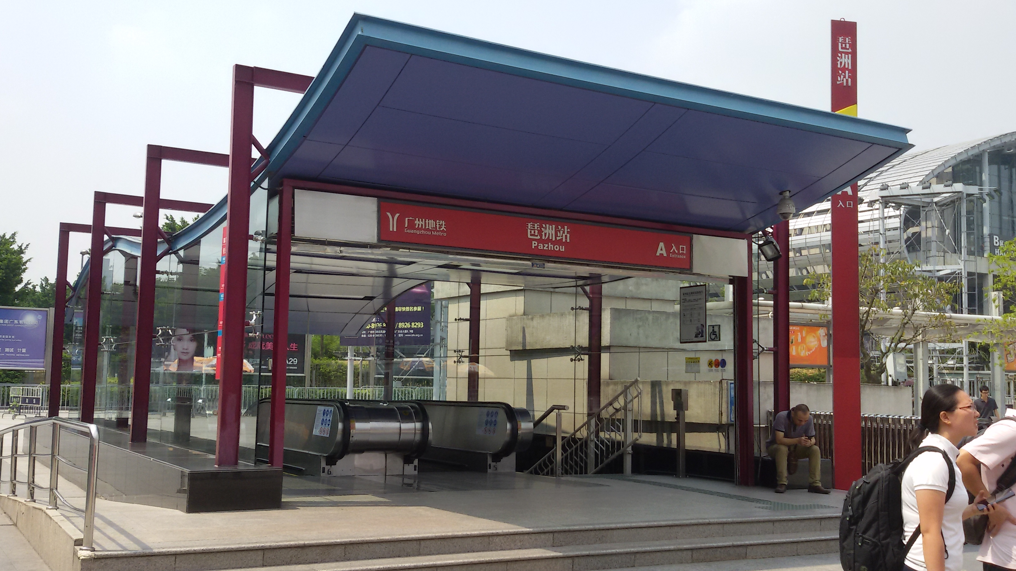 Exit A for Pazhou Station in Guangzhou Metro.